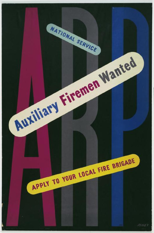 Arp - Auxiliary Firemen Wanted whole: a text-based design with the letters 'A R P' displayed in red, grey and blue, covering the whole poster. Three labels are placed at varying diagonal angles across these letters. The top label contains dark blue text set against light blue. The middle label contains text in blue, red and black against white. The bottom label incorporates red text into a yellow band. All is set against a black background. image: none. text: A R P NATIONAL SERVICE AUXILIARY FIREMEN WANTED APPLY TO YOUR LOCAL FIRE BRIGADE